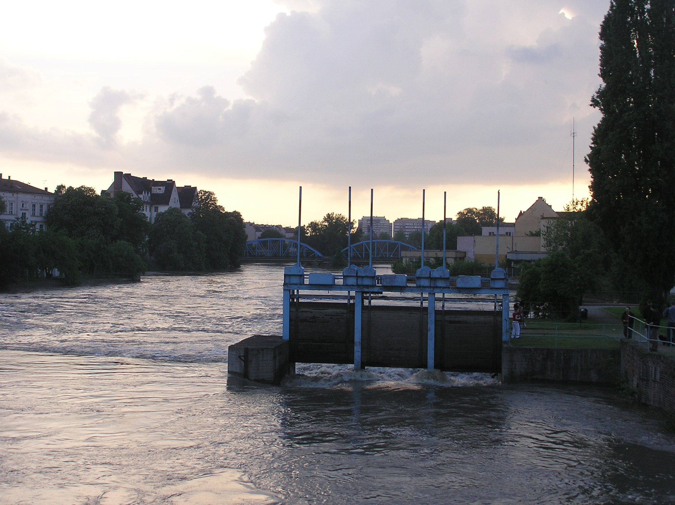 Wrocław, weir of southern hydroelectric plant in Wrocław